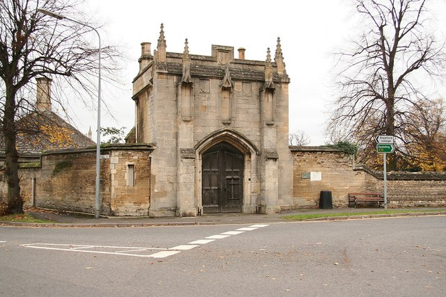 Greyfriars' Gate. The Greyfriars house was founded in 1285 and dissolved in 1539, only this gatehouse of c1350 survives. The site has been previously misidentified as the site of the Whitefriars' priory.[1]